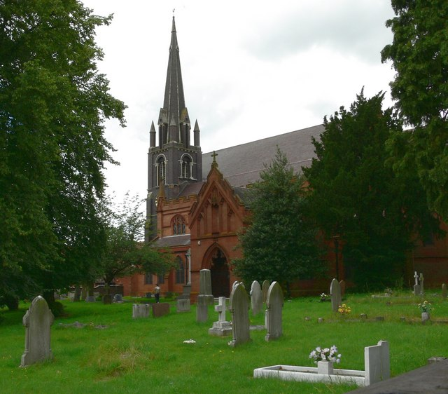 Parish church of St John the Baptist, Bewdley Road, Kidderminster, Worcestershire, seen from the southeast